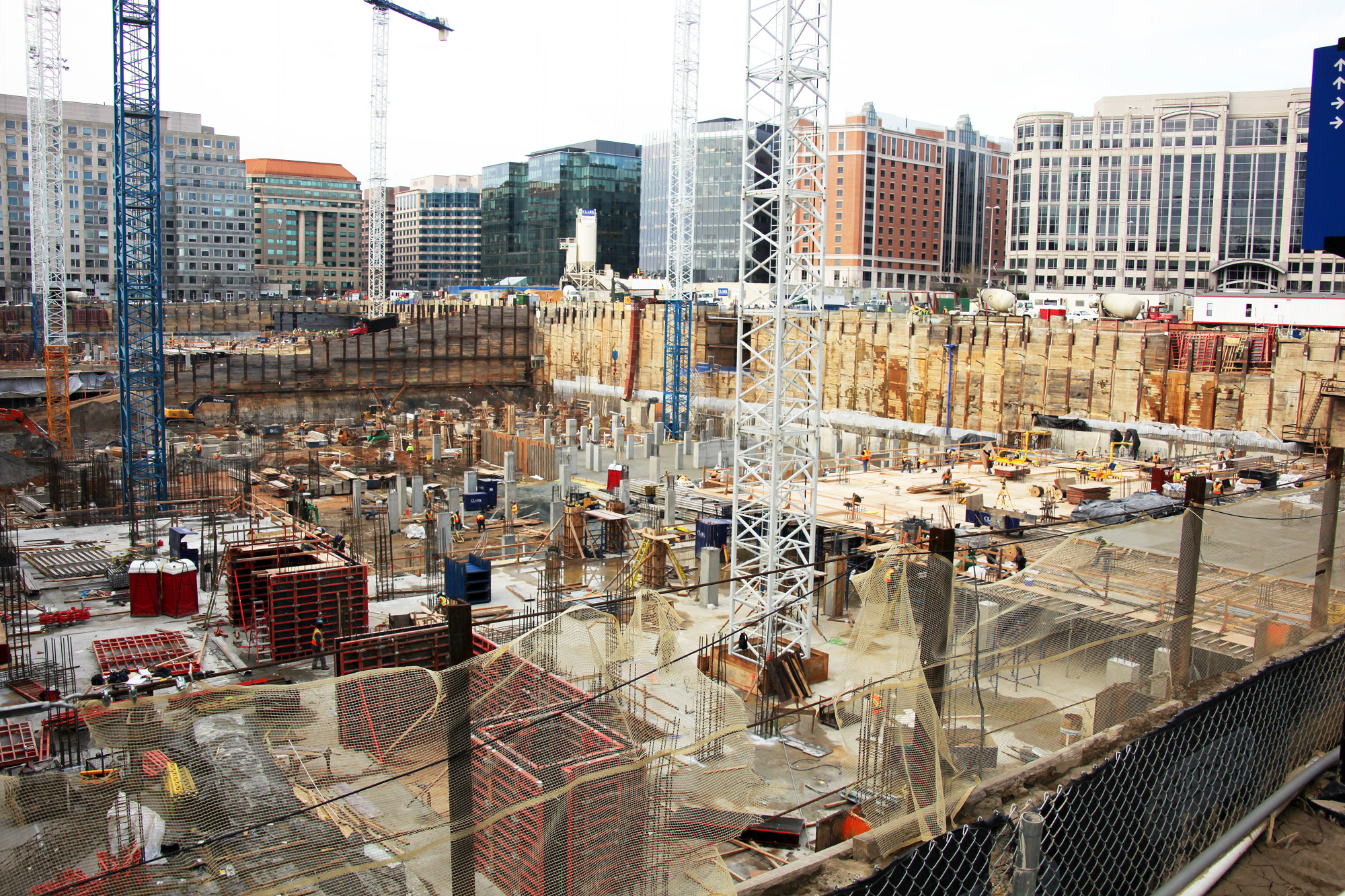 Construction under way on CityCenterDC. CityCenterDC is a real estate development consisting of two condominium buildings, two rental apartment buildings, two office buildings, a luxury hotel, and public park in downtown Washington, D.C. It encompasses 2 million square feet (190,000 sq. m) and covers more than five city blocks. The $950 million development began construction on April 4, 2011, on the site of the former Washington Convention Center. As of 2011, the development is one of the largest downtown projects in the United States, and the largest urban development on the East Coast of the United States.